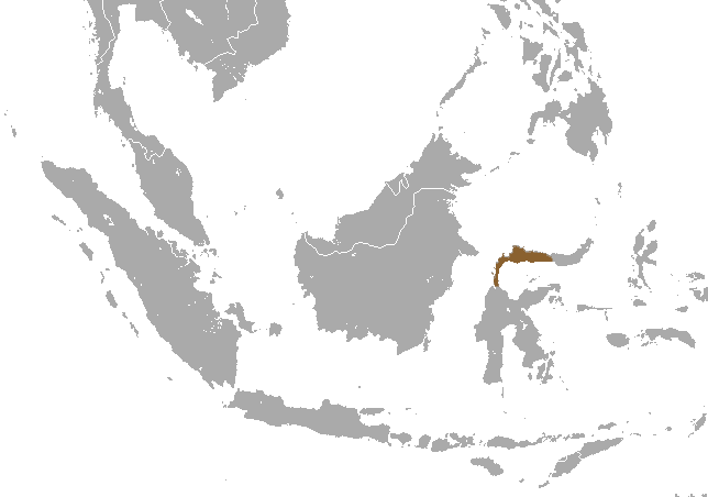 Heck's Macaque (Macaca hecki) range